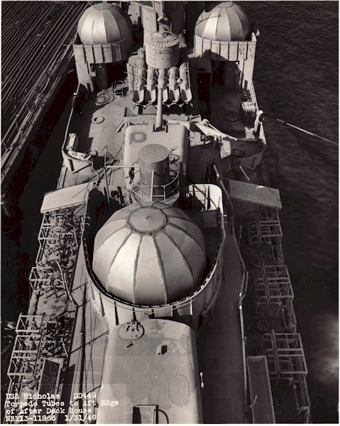 The U.S. Navy destroyer USS Nicholas (DD-449) at the Mare Island Naval Shipyard, California (USA), as she was being prepared for conversion to the DDE configuration, 31 January 1949.